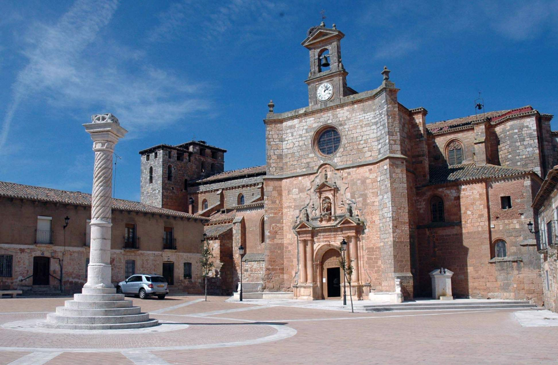 Iglesia de San Miguel y rollo en Mahamud, Burgos